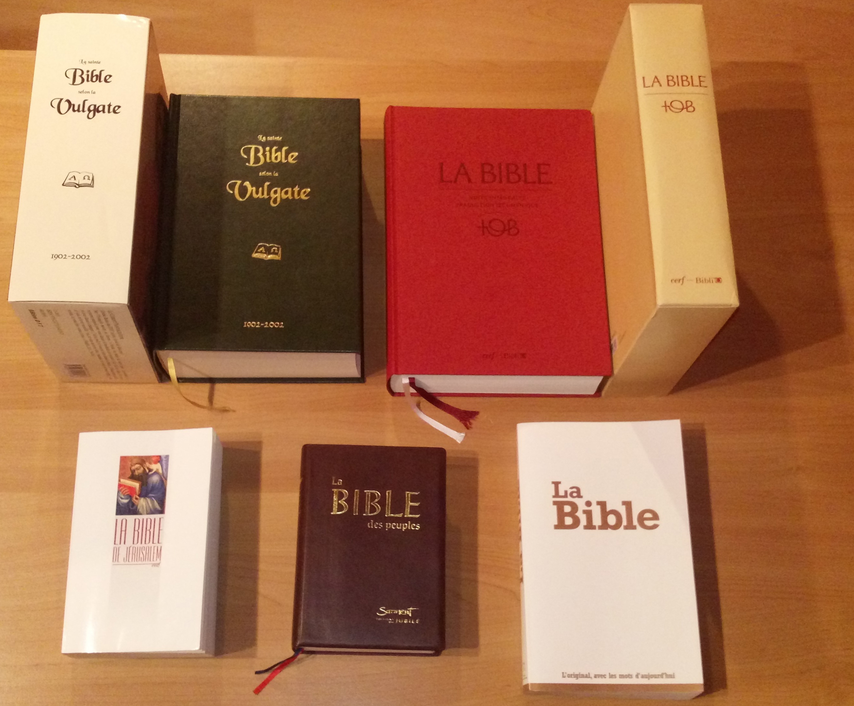 Five bibles in French; in order from upper left to right: the La sainte Bible selon la Vulgate (ed. 2019), the La Bible, notes intégrales, traduction œcuménique (12th ed., 2012), the French edition of the Jerusalem Bible (ed. 2014) in pocket format (cover illustration : Saint Matthew by Meister Theoderich von Prag), the French edition of the Christian Community Bible (La Bible des peuples (ed. n.d.)) in pocket format, the Louis Segond 21 (17th ed., 2015).